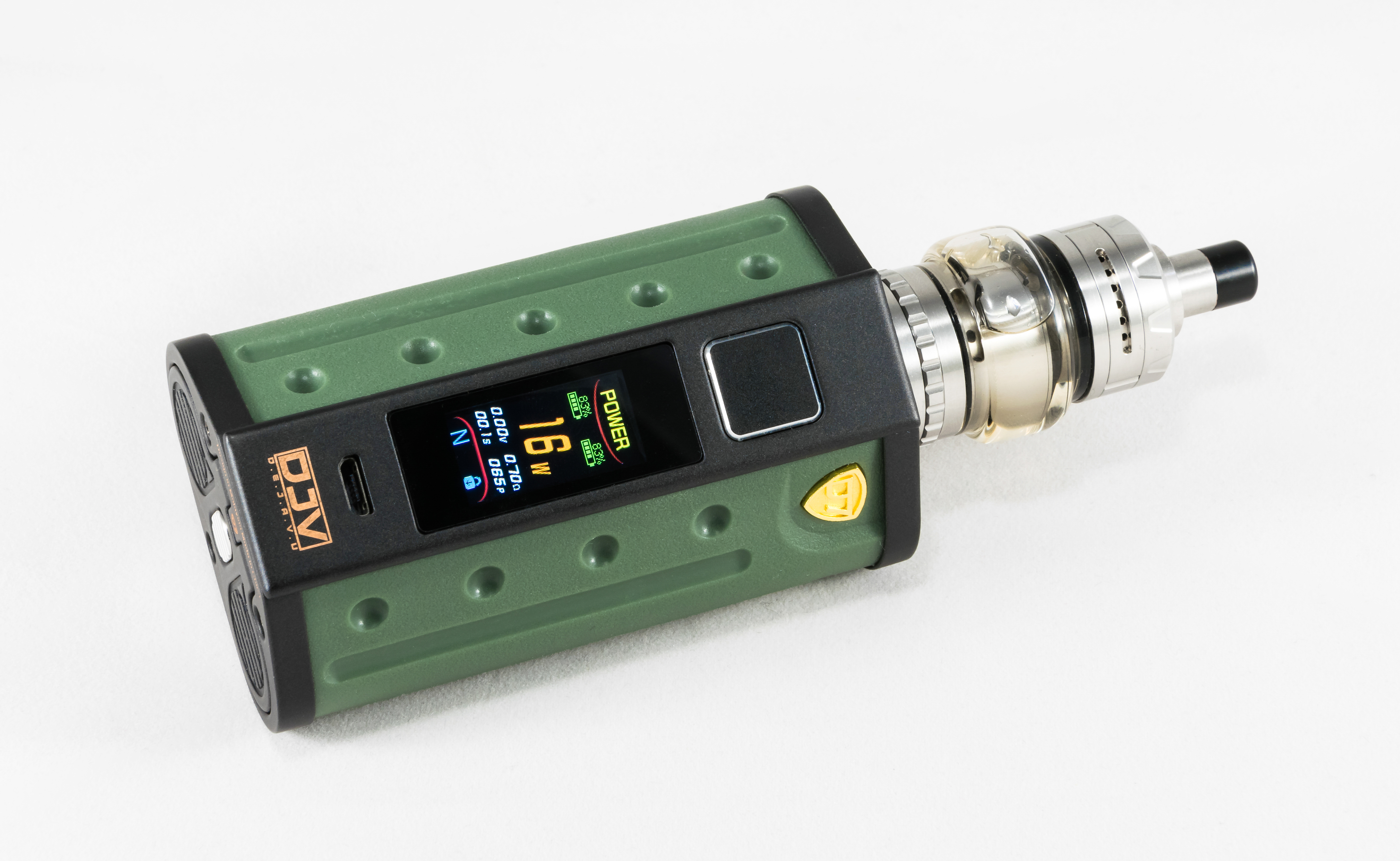 Mod: power supply DEJAVU DJV D7 and vaporizer Exvape Expromizer V4 with bulbglass